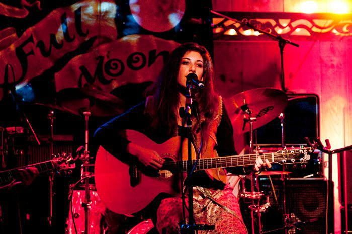 Sarah Fimm Performing Solo in Fall of 2010